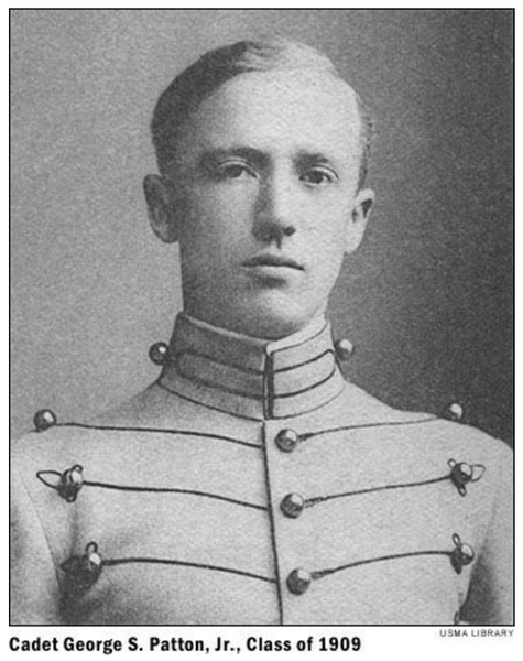 Cadet George S. Patton, Jr., Class of 1909